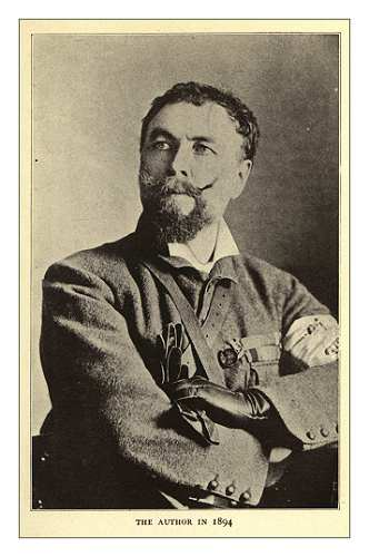 Портретна снимка на Фредерик Уилърс (1851 - 1922)